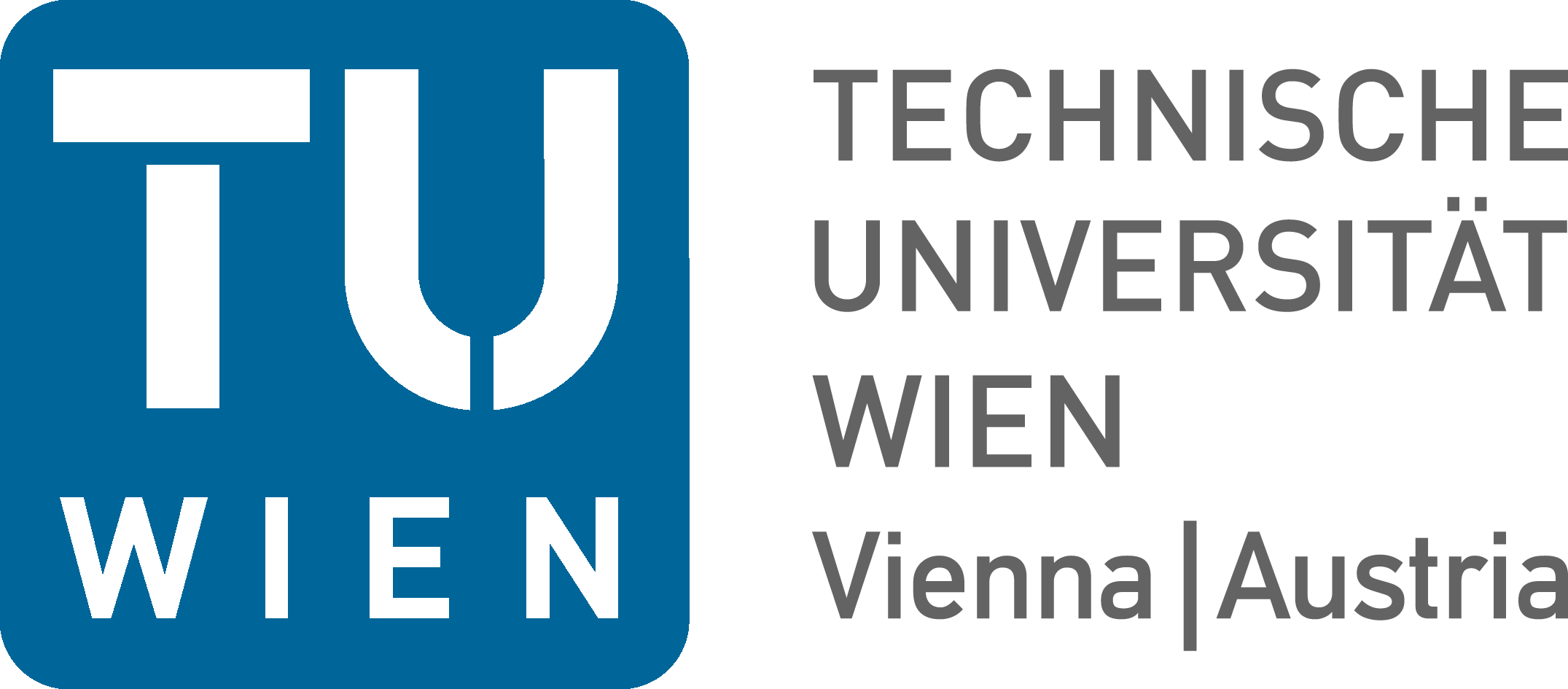 Logo of TU Wien